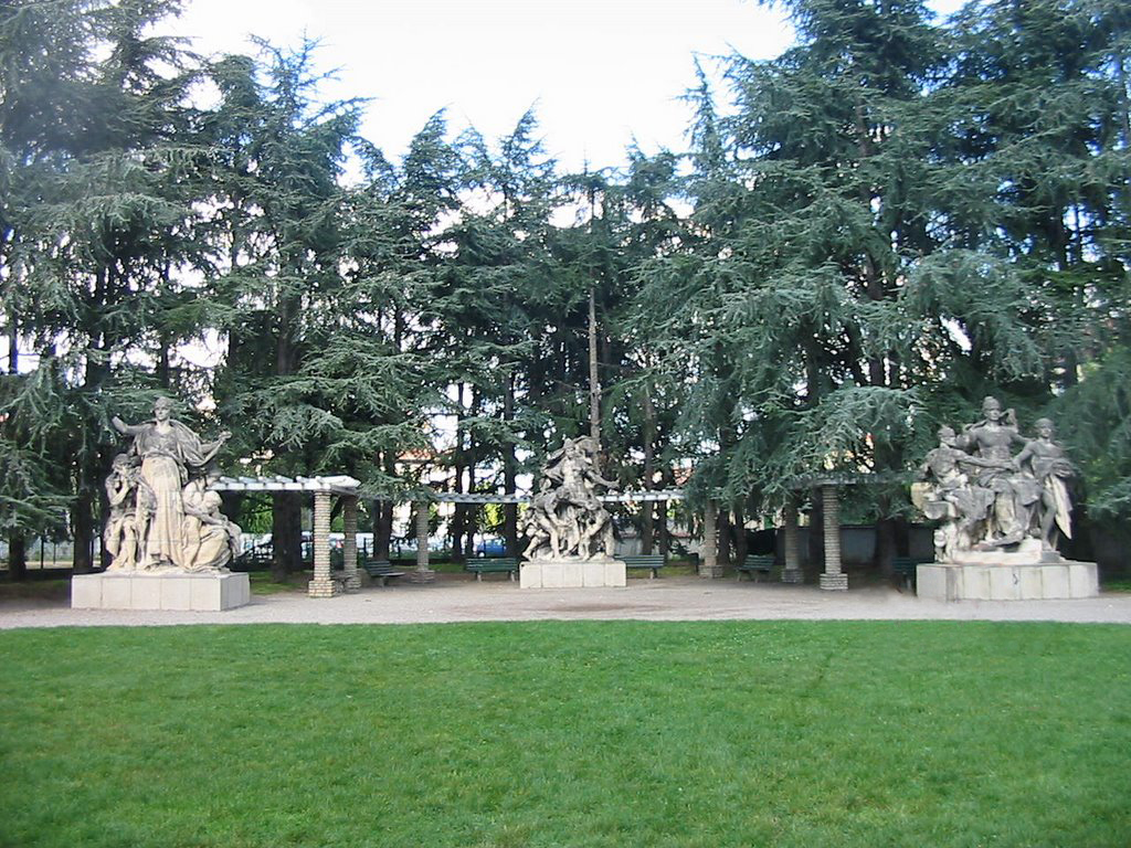 Three statuary groups with each figure is twice as much as normal